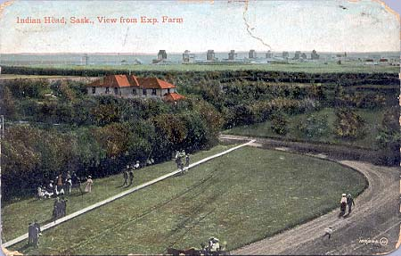 Indian Head, Sask., from exp. farm 190